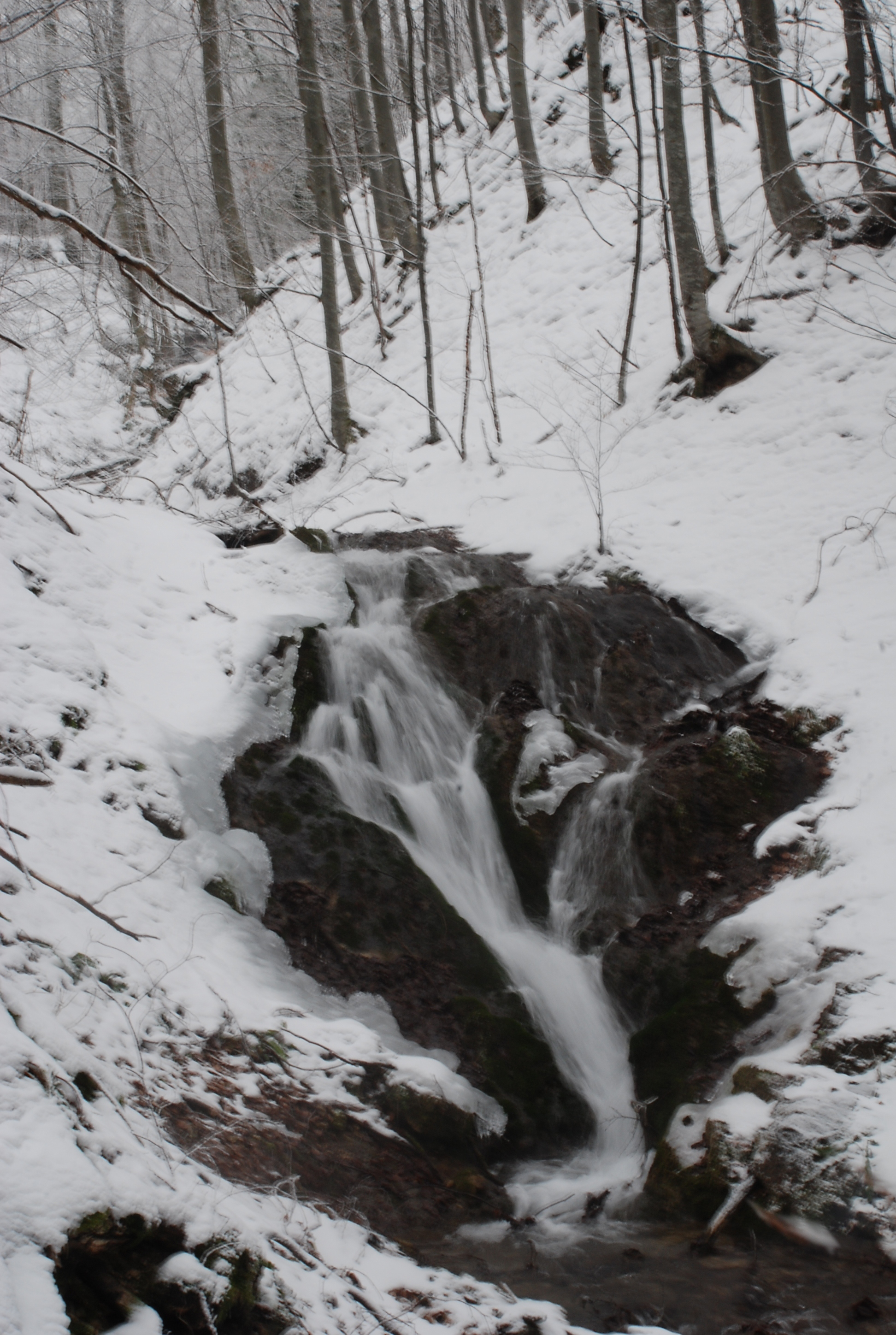 Povlen River - Mountain Povlen - Western Serbia - Waterfall 4